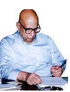 Naser Maleknia, Professor of Medicine at Tehran Medical school